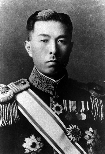 Portrait of Konoe Fumimaro (近衞文麿, 1891 – 1945), 34th (1937 – 1939), 38th (1940 – 1941) and 39th (1941 – 1941) Prime Minister of Japan